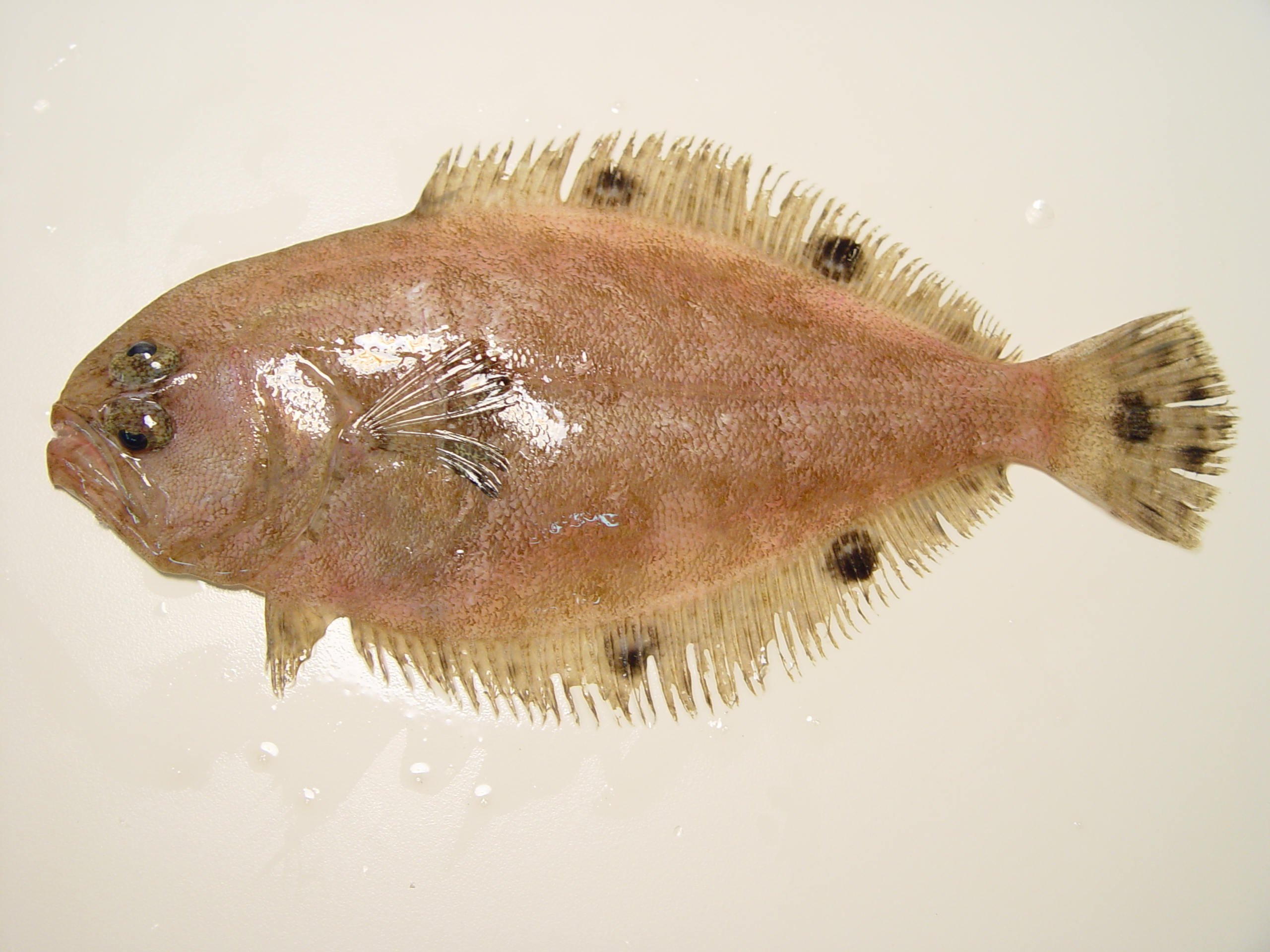 Cyclopsetta fimbriata from the Gulf of Mexico